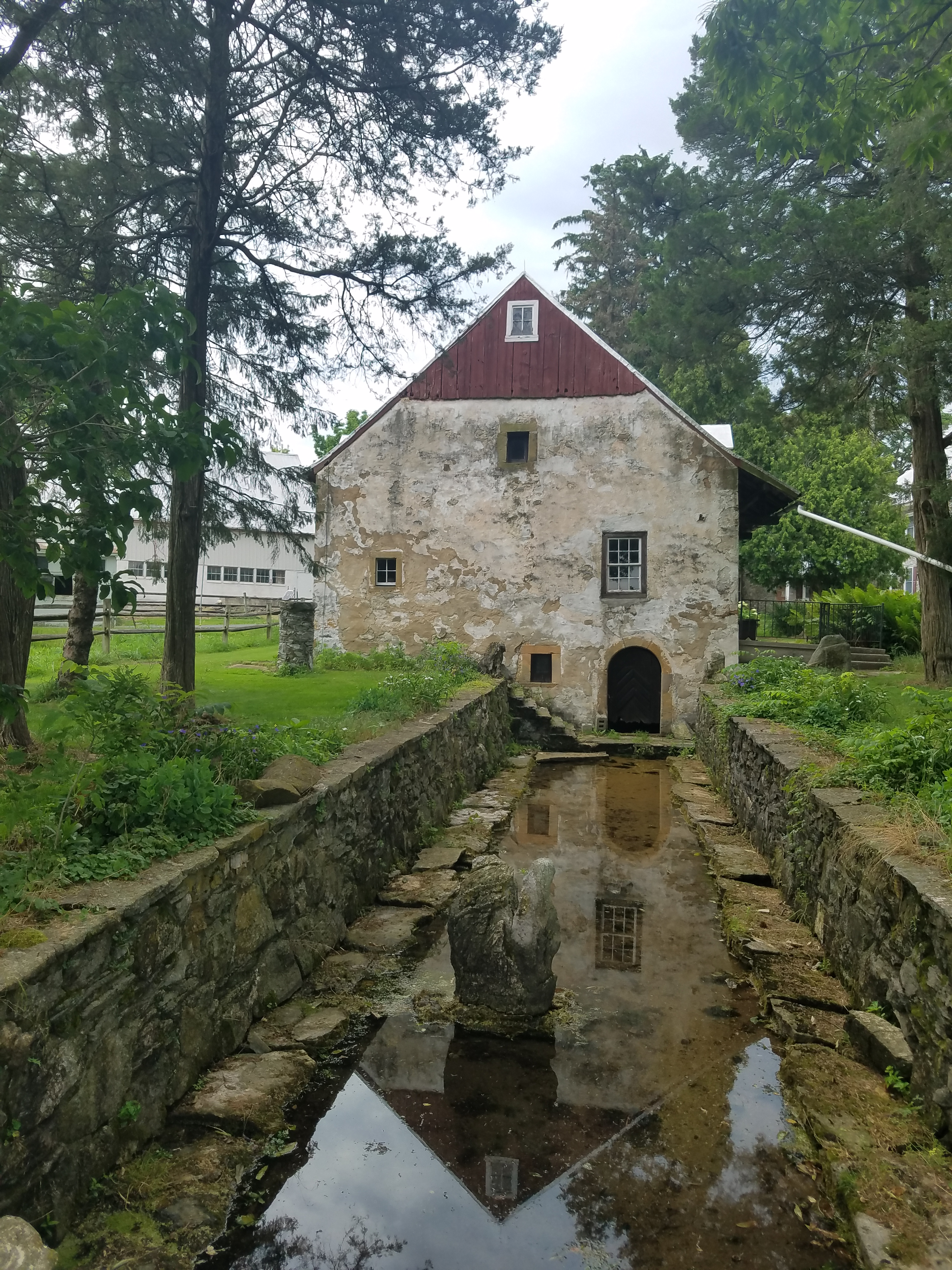 Fort Zeller - canal and creek running from spring.